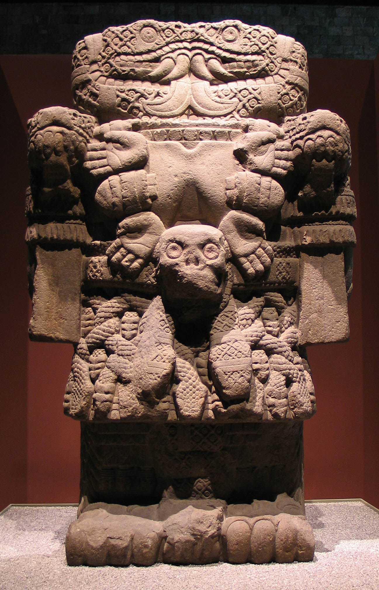 Statue of Coatlicue displayed in National Anthropology Museum in Mexico City.